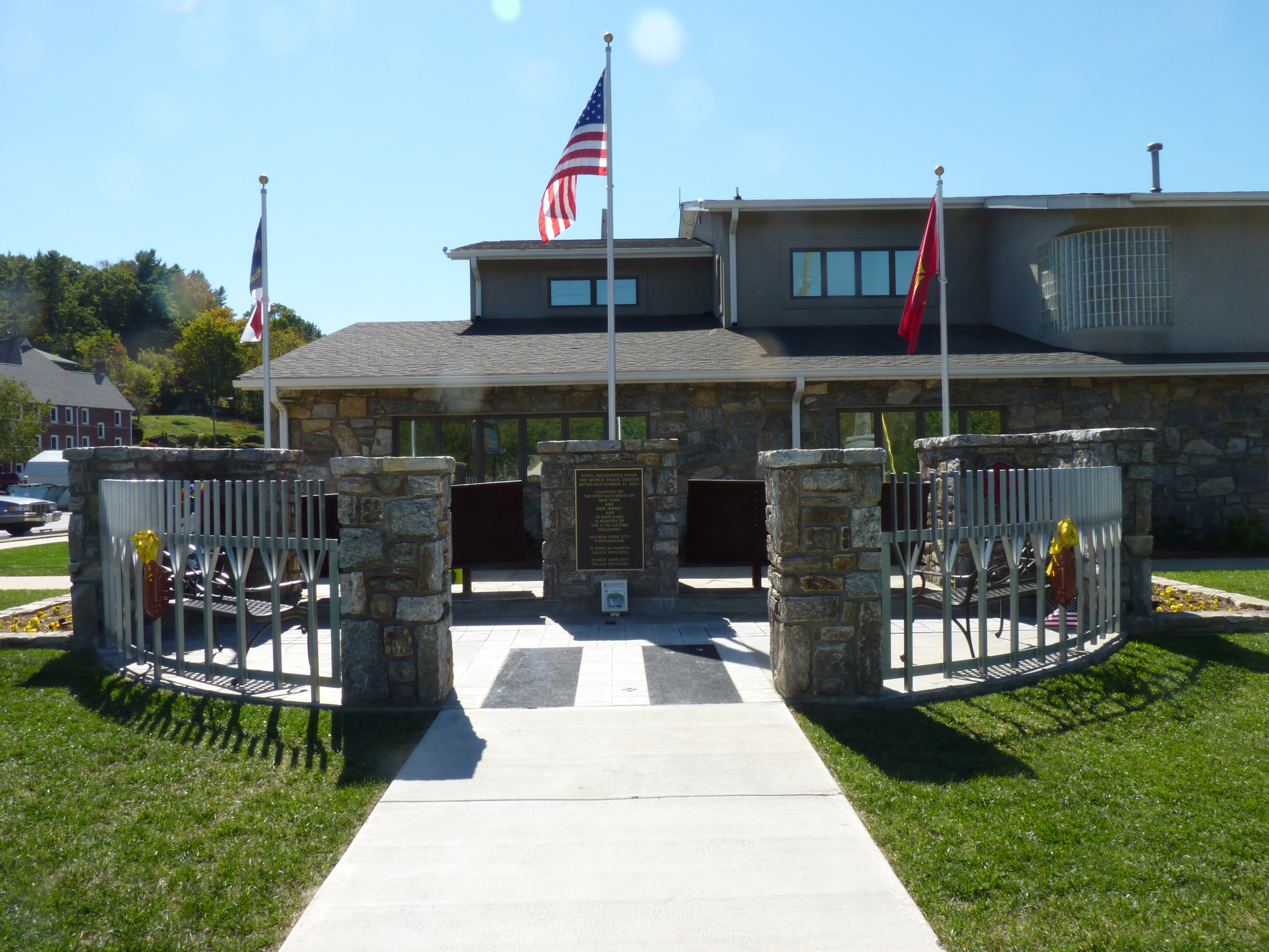 In September 2011, 10 years after the attack on the World Trade Center, the firefighters from Clyde, North Carolina created a monument to their fallen comrades. Part of the monument consists of two pieces of steel from the fallen buildings, as seen here flanking the central pillar. The fencework surrounding the monument was designed to mimic the outside appearance of the lobby of the World Trade Center.